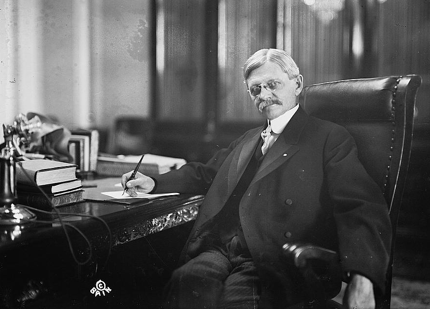 Thomas Marshall in his senate office while serving as vice president of the United States between 1912 and 1920